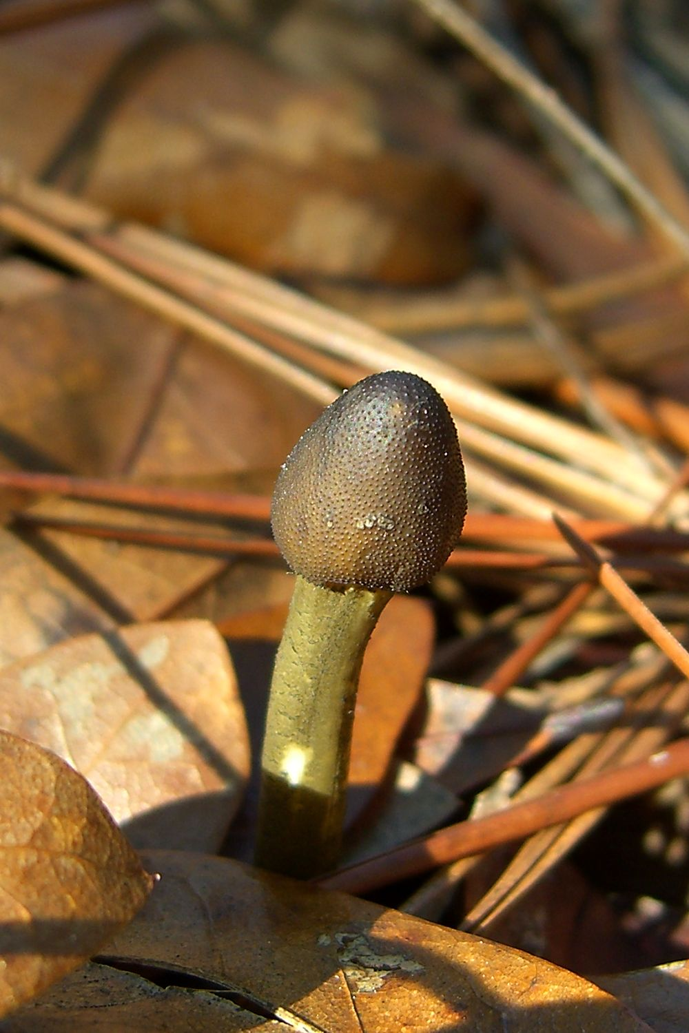 Cordyceps capitata (Holmsk.) Link. Collection location: Apalachicola National Forest, Wakulla Co., Florida, USA